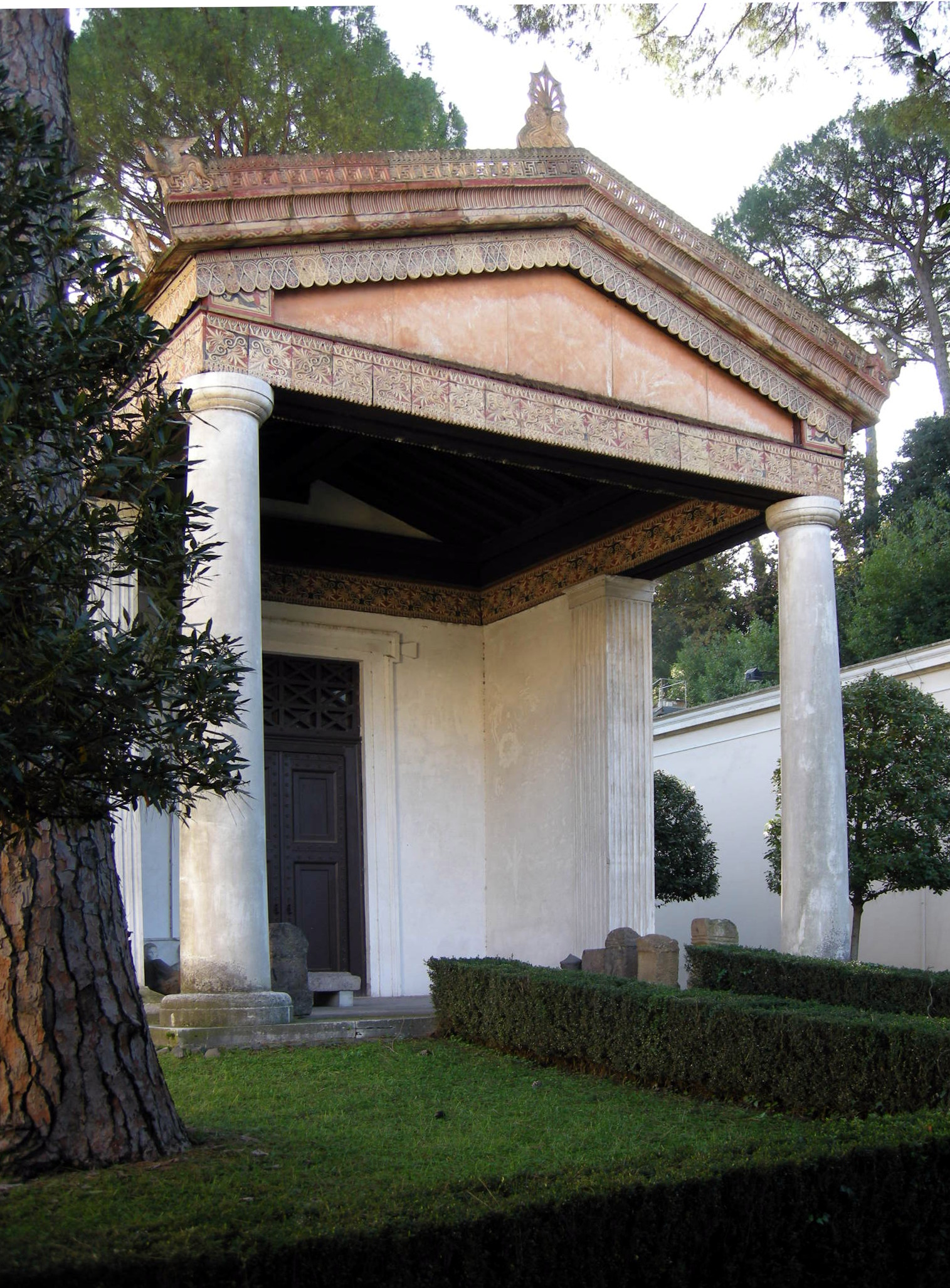 19th century reconstruction of an Etruscan temple, in the courtyard of the Villa Giulia Museum in Rome, Italy.